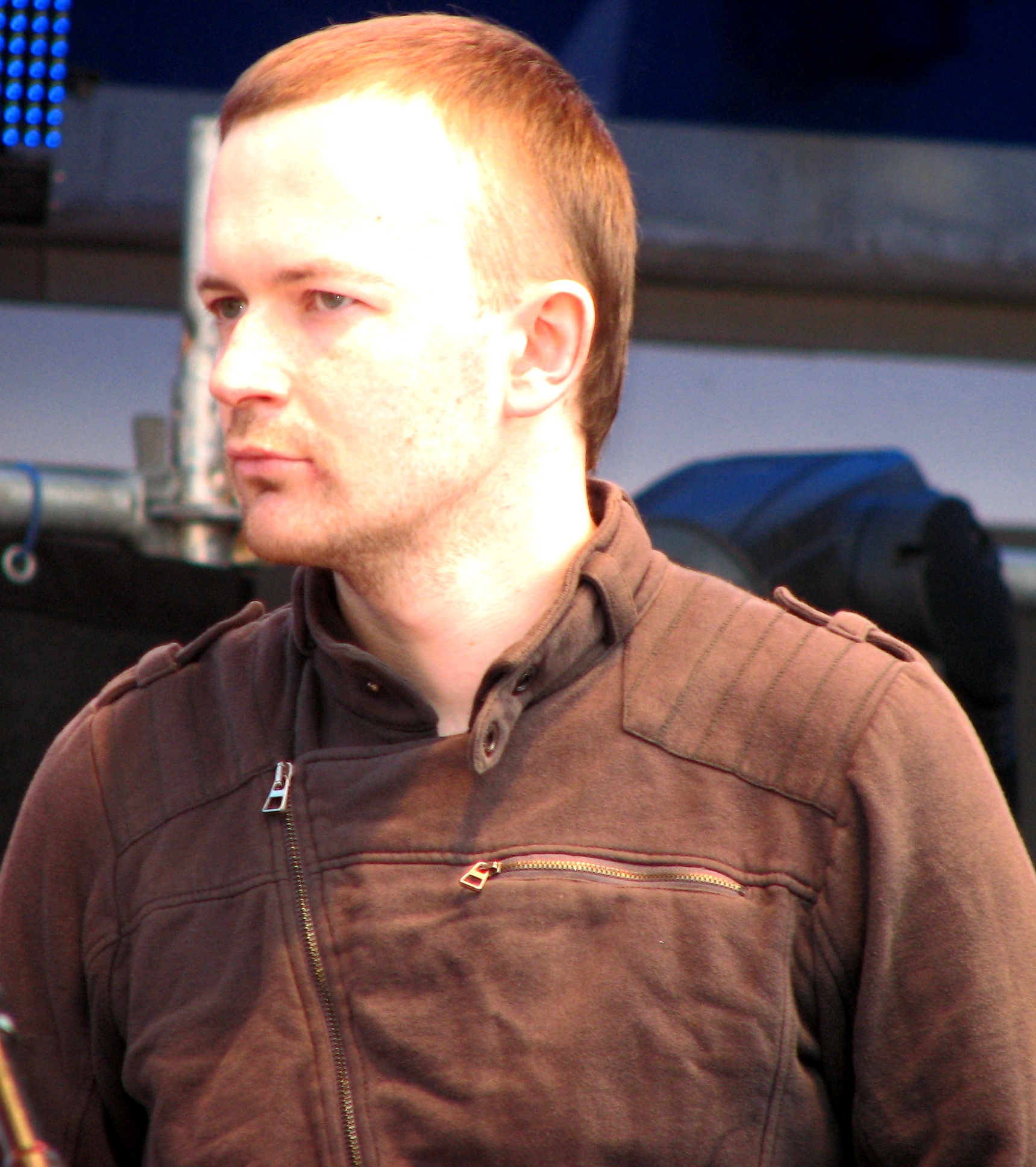 Kārlis Vērdiņš in Grand Slam, Tallinn